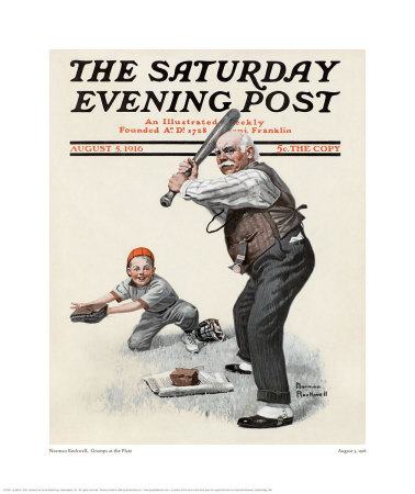 Norman Rockwell's Gramps at the Plate was the cover of The Saturday Evening Post, published 5-Aug-1916. Read more